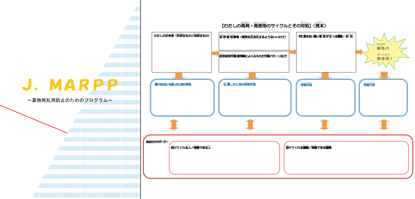 Educational materials used in juvenile training schools in Japan to prevent drug abuse